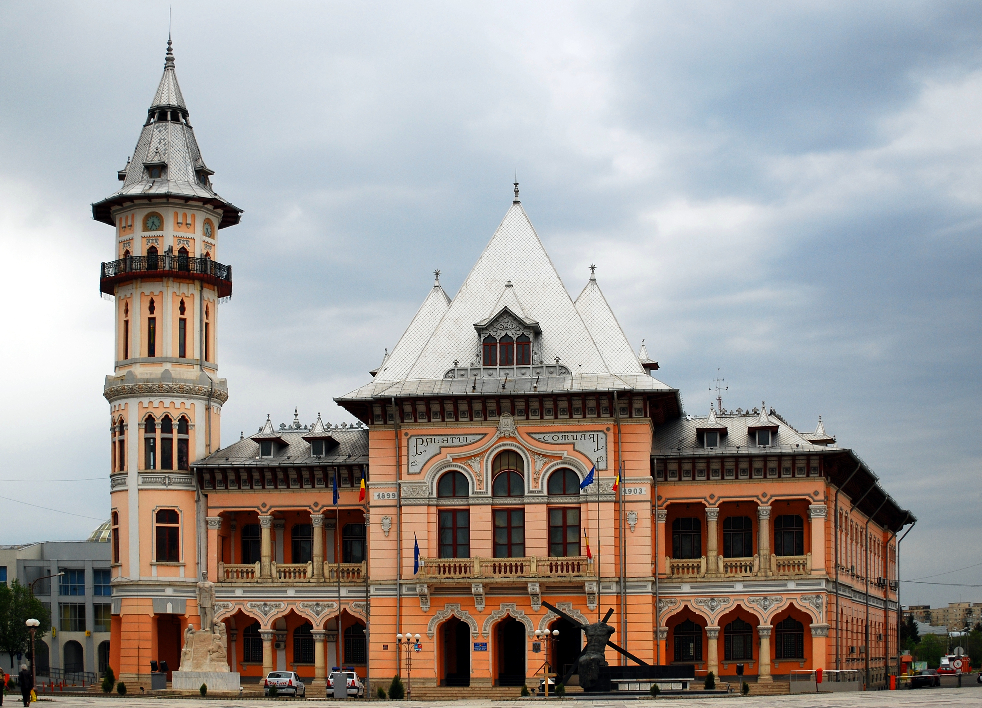 The Communal Palace in Buzău, Romania, with the tower in the Southern corner. The building is Buzău's city hall, built for this purpose between 1899 and 1903, after the design of Romanian architect Alexandru Săvulescu. This picture shows the Communal Palace facade, seen from the South-East, from the Dacia Square